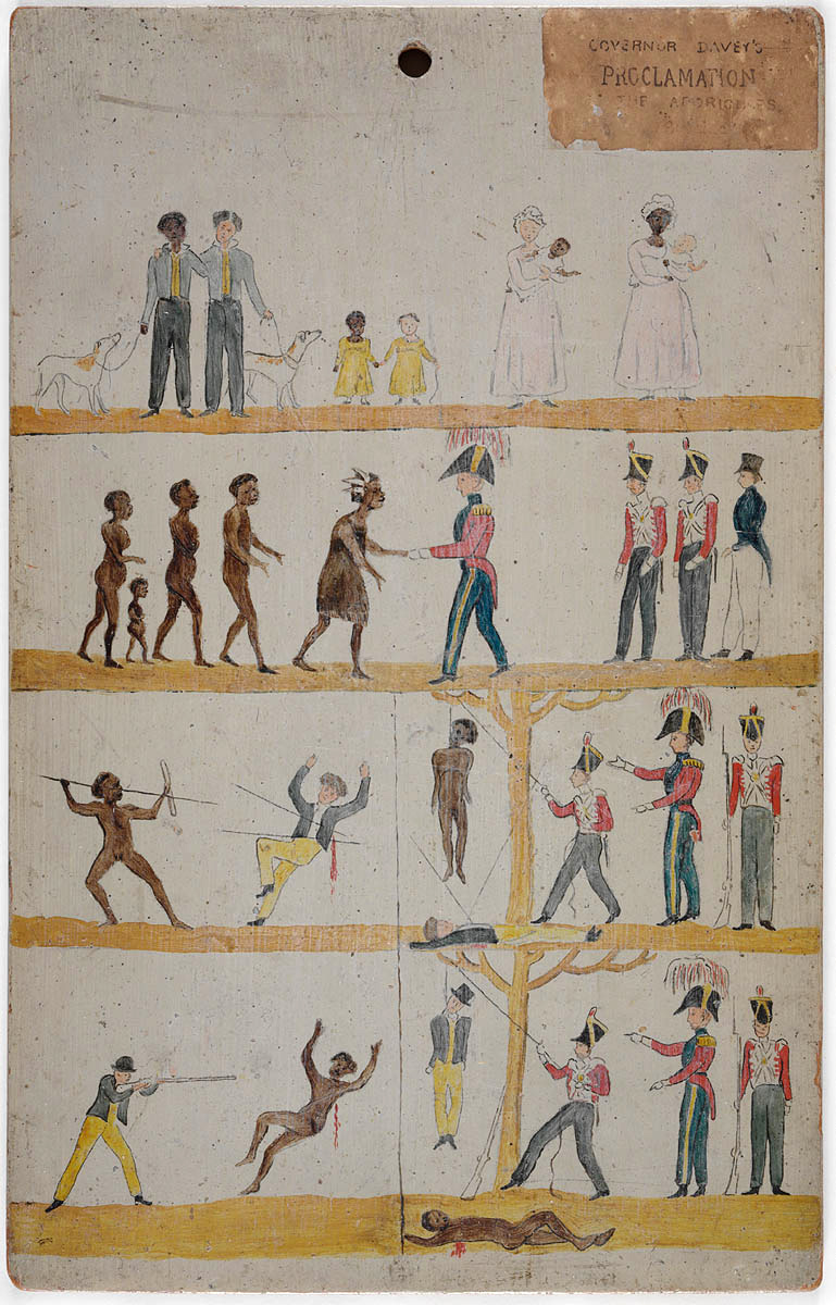 Governor Davey's [sic] Proclamation to the Aborigines, 1816 [sic]. Painting - oil painting on huon pine board, rectangular in shape with rounded corners and hole at top centre for suspension - 35.7 x 22.6 x 1 cm. The image depicts four scenes: Peaceful intermingling of white settlers and Aborigines, all dressed in European clothing An Aboriginal group shake hands with Governor Arthur watched on by peaceful white soldiers/settlers An Aboriginal man spears a white settler, and is consequently hanged by the military under the watch of Governor Arthur An white settler shoots an Aboriginal man and is consequently hanged by the military under the watch of Governor Arthur Notes: Some decades after these panels (of unknown number and artist/s) were created, an original was located and mistakenly thought to have been produced during the time of Thomas Davey, Lieutenant Governor of Van Diemen's Land from 1813 to 1817. They were thus incorrectly labelled as "Governor Davey's Proclamation to the Aborigines" (and are still popularly known as such). In fact it depicts Lieutenant-Governor George Arthur's proclamation of c.1828-1830. Originally conceived by Surveyor General George Frankland as a way of communicating the proclamation to Aborigines, his original drawing was reproduced onto boards and mounted on trees in remote areas of Van Diemen's Land (Tasmania) where Aborigines would see them. Later lithographic reproductions were also mislabelled (see Other versions below).